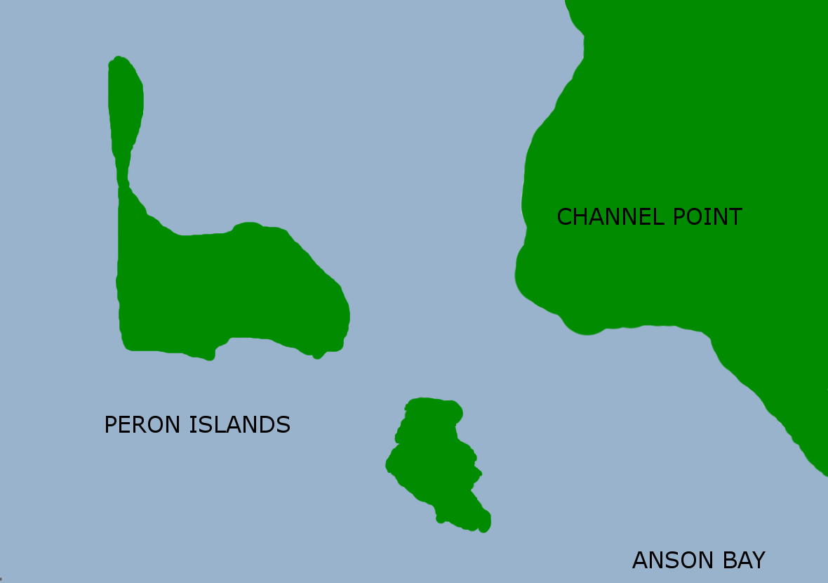 Handmade map shows the Peron Islands off the northwest coast of Northern Territory, Australia